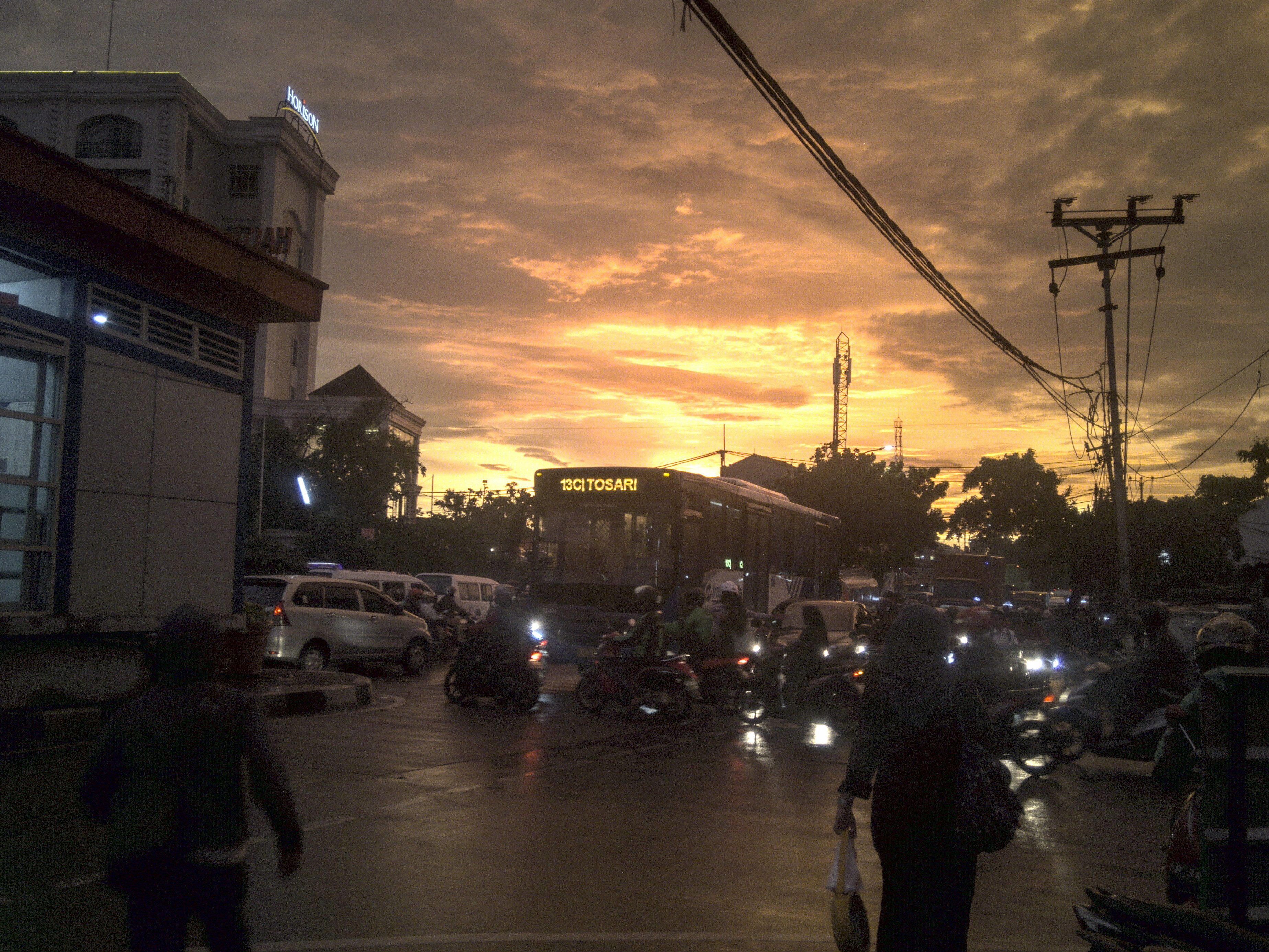 A TransJakarta bus approaching Adam Malik stop